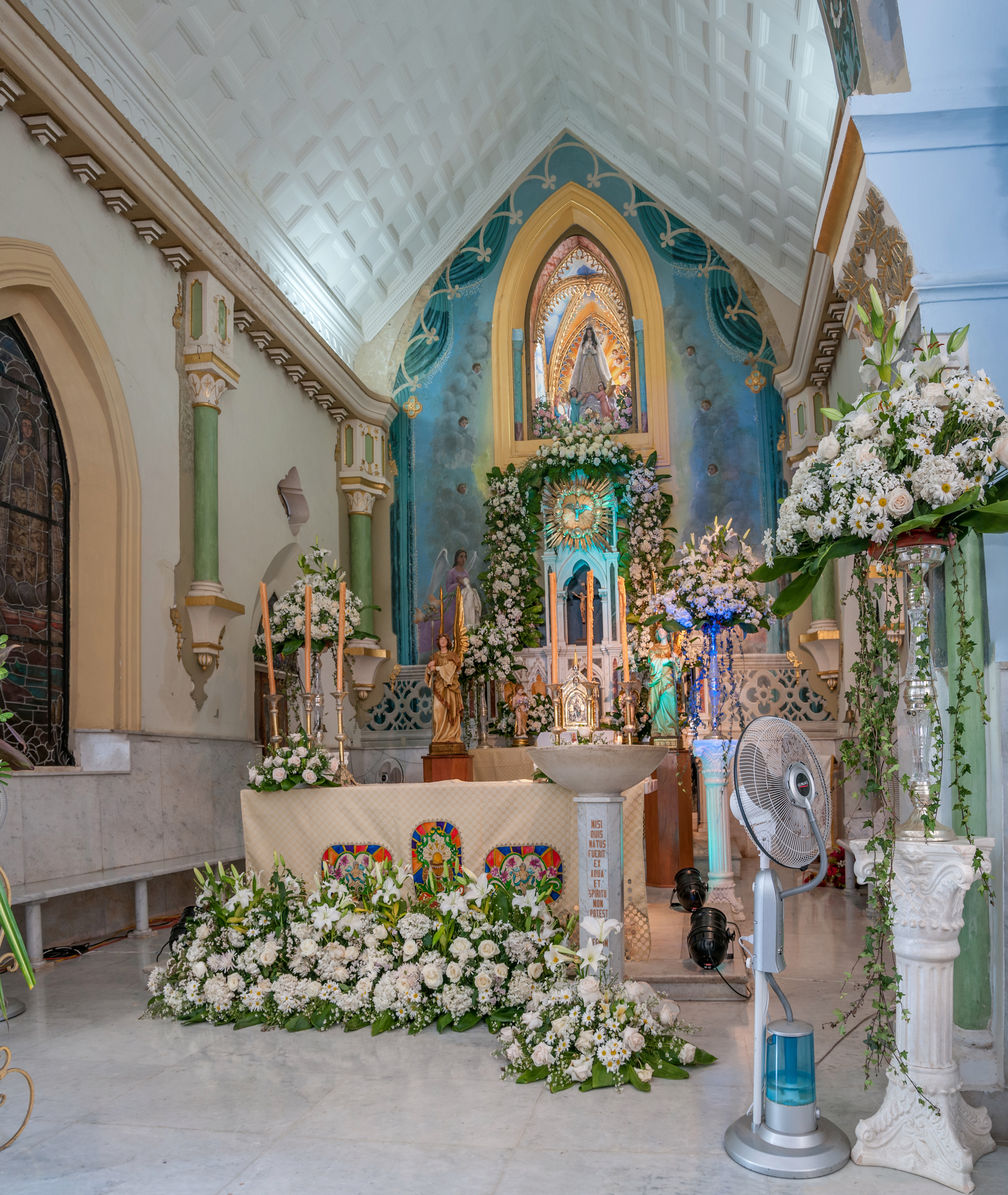 Interior minor basilica of Our Lady of the Valley